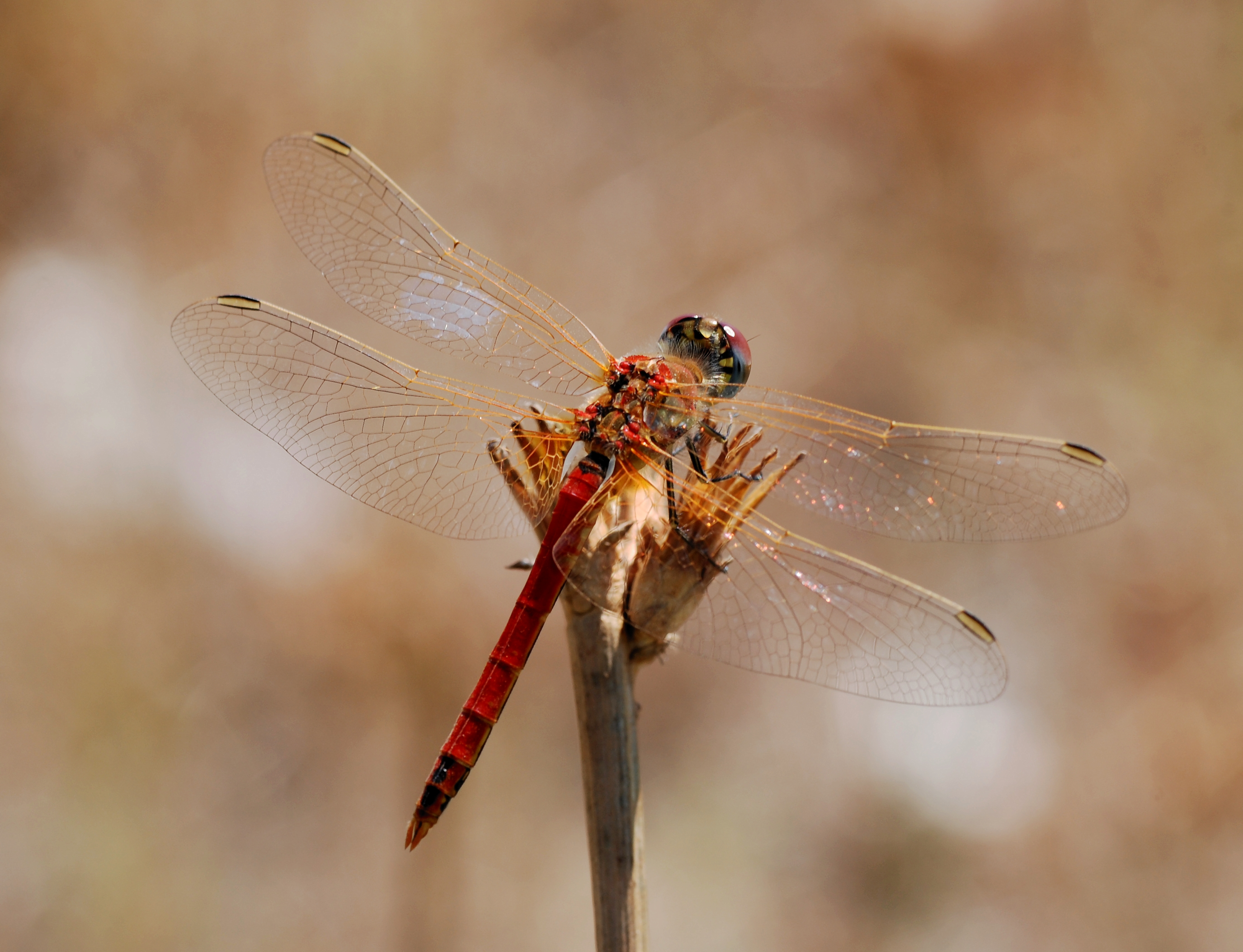 Red-veined darter dragonfly (Sympetrum fonscolombii)